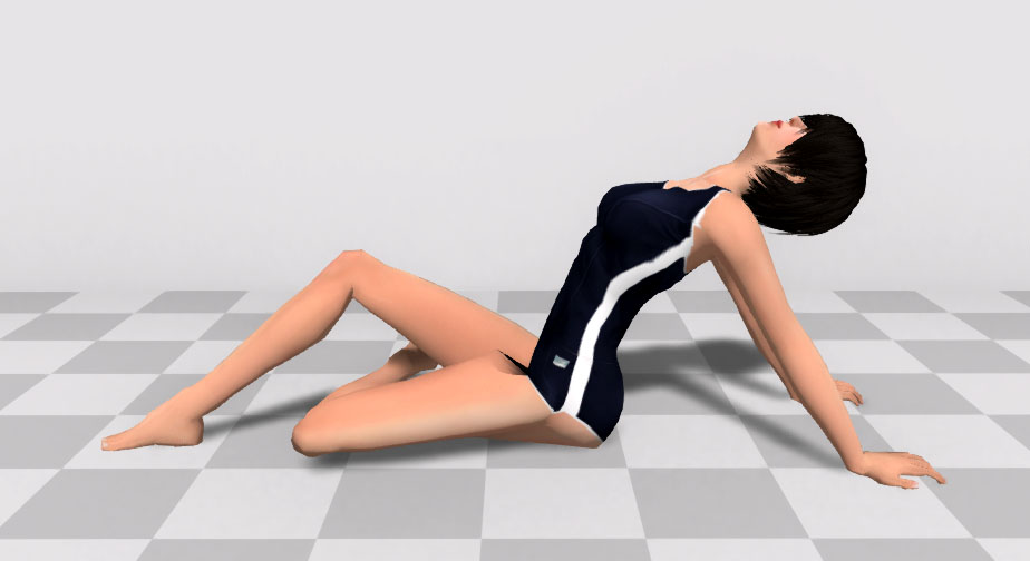 The trademark pose of Takefuji Dancers in the commercial films